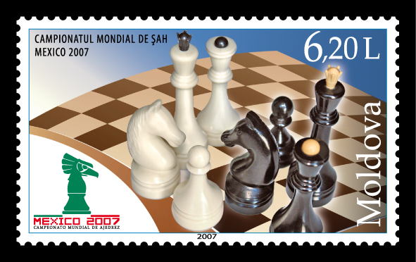 Stamp of Moldova